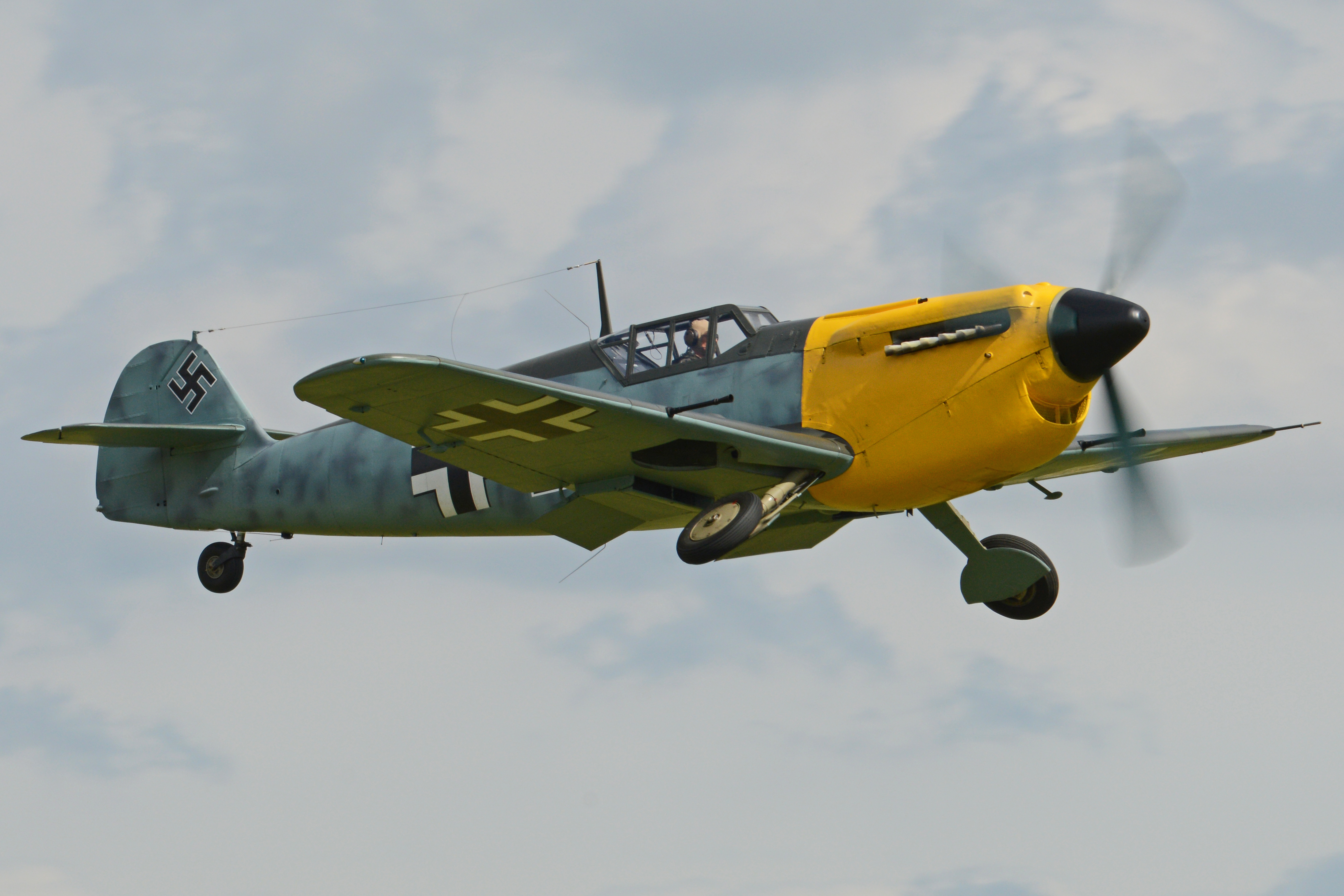 c/n 172. Spanish Air Force serial ‘C.4K-102’. Hispano Buchon built post-war in Spain. Restored in original condition and still fitted with a Rolls-Royce Merlin engine, which is how they were built. Involved in the production of 'The Battle of Britain' film, at Duxford in 1968, she is seen here wearing a temporary paint scheme for the filming of the 'Dunkirk' movie, which also features two of Duxford's Mk.I Spitfires. Duxford based and operated by ARCo, she is taking off to display at the 2016 Flying Legends airshow, Duxford, Cambridgeshire, UK. 10th July 2016. The following info is from the Flying Legends website: "The Buchon is essentially a Rolls-Royce Merlin engine Messerschmitt Bf109. The Luftwaffe-manned Condor Legion upon its return to Germany in 1939, lefty around 40 Bf109B/E’s for the Spanish Air Force to use. In 1943 the Spanish government agreed to licence production with Messerschmitt to produce 200 Bf109G’s. As the war worsened, Germany was unable to supply the remaining components for the airframes. Improving relations between the Spanish government and the West from 1952, saw the powerful Rolls Royce Merlin engine sourced from Britain fitted to the airframe. The combination of ex-German airframe and British powerplant was successful and the first prototype flew in 1954. This particular aircraft was built by Hispano Aviacion in Saville in 1959. This aircraft was one of 27 purchased at auction from the Spanish Air Force by Spitfire Productions for use in the making of the 1968 film “Battle of Britain”. After filming this aircraft was acquired by Wilson C Edwards and shipped to the U.S.A. She was acquired by the Old Flying Machine Company and arrived back in the U.K in 1996. After being sold on to The Real Aircraft Company who initiated a full rebuild to airworthy condition she was acquired by Spitfire Ltd in 2006. This aircraft is now owned by Historic Flying Ltd and flown in the movie ‘Valkyrie’ starring Tom Cruise."